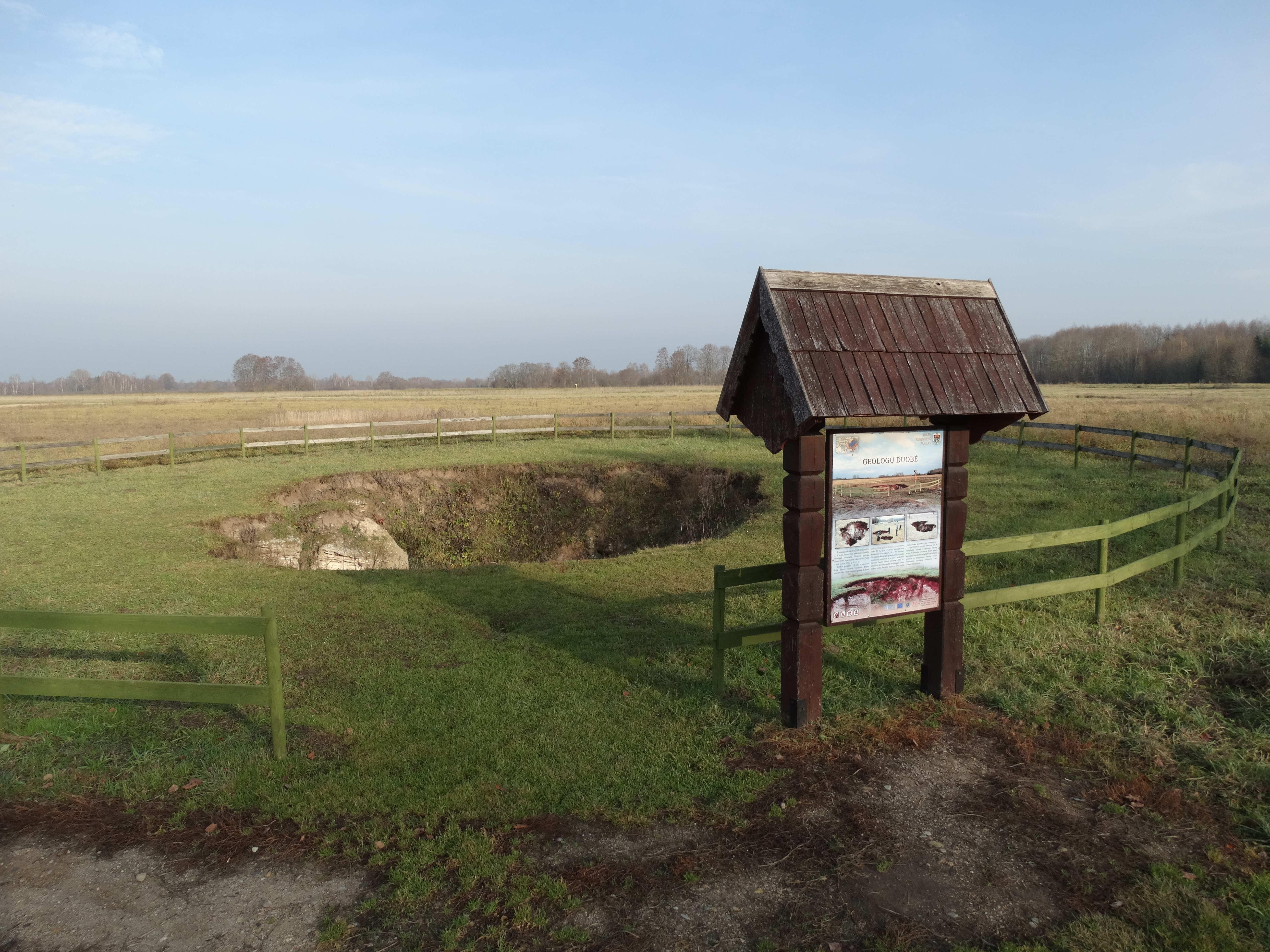 Geolgists' karst sinkhole, Biržai district, Lithuania